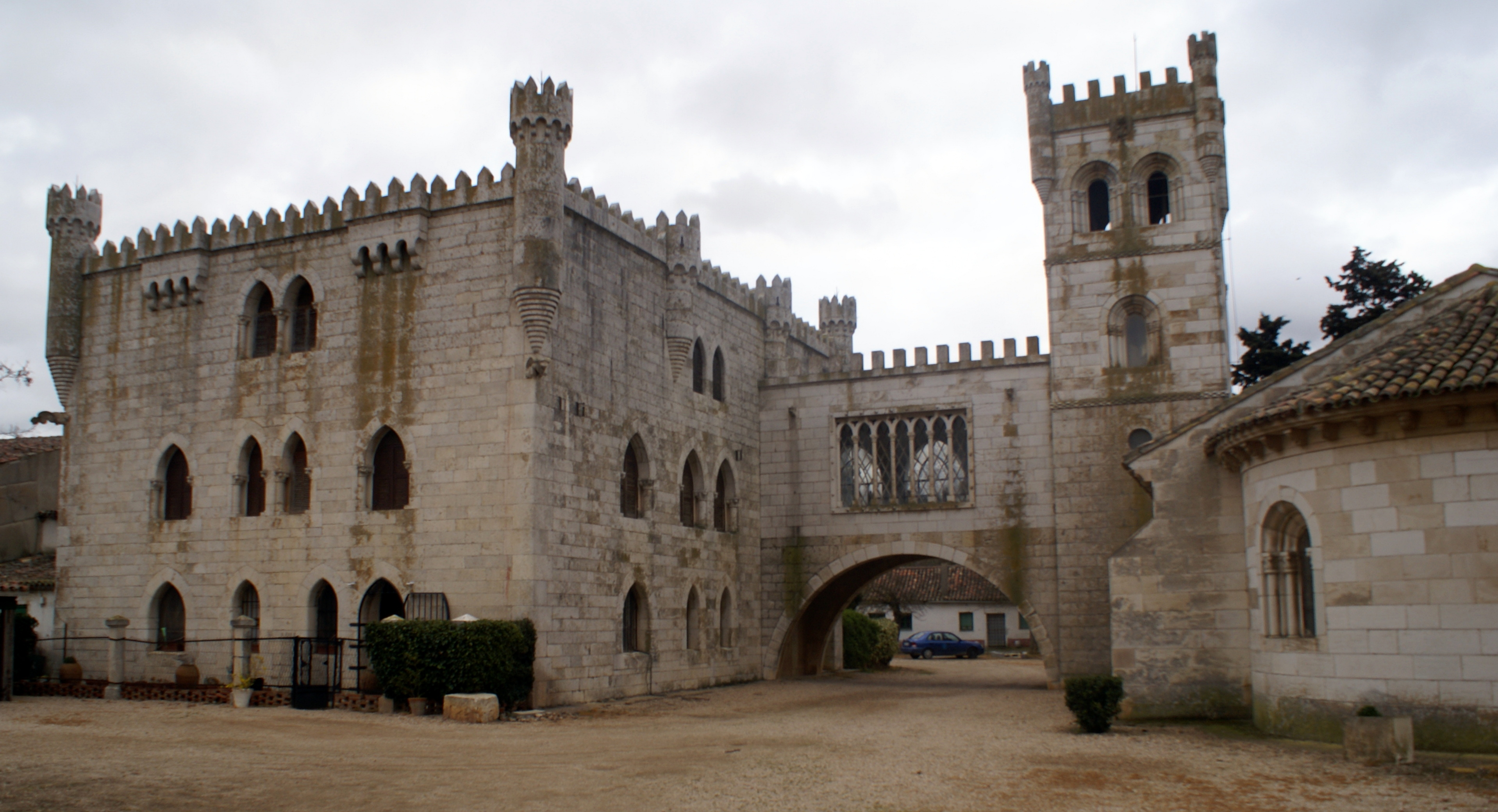 Castle of Aguilarejo, Valladolid, Spain.